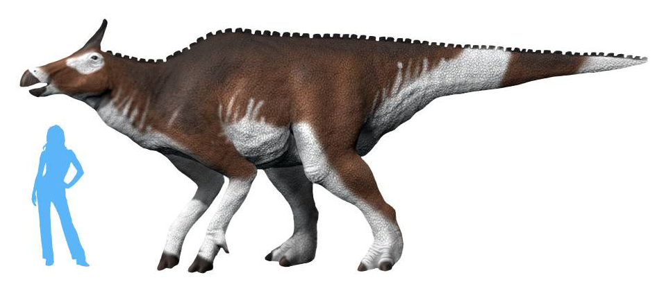 Restoration of Augustynolophus morrisi.